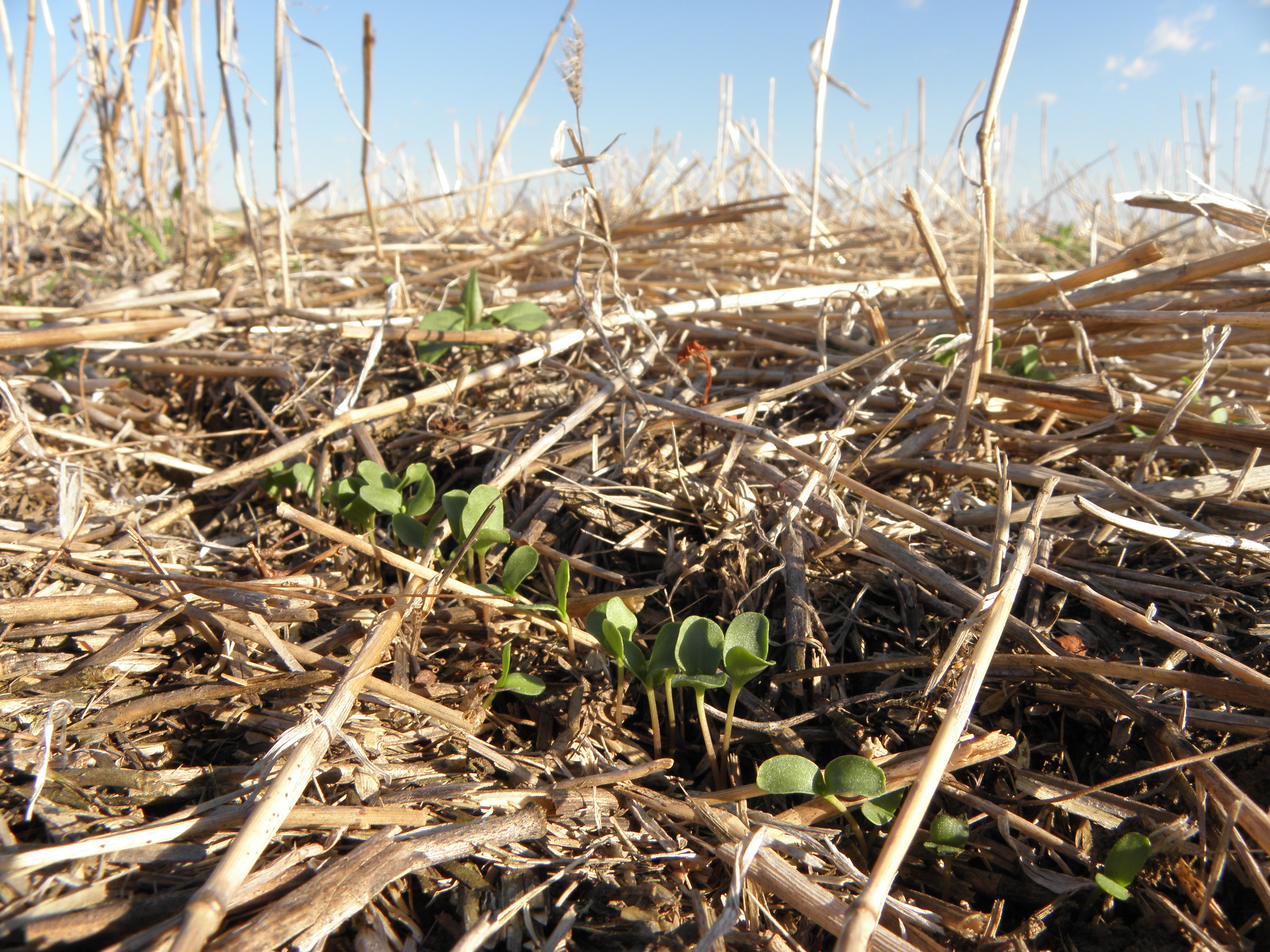 Cover Crops in Northwestern South Dakota. Photo by Mieko Alley, Soil Conservation Technician, with the USDA Natural Resources Conservation Service, Bison, SD.